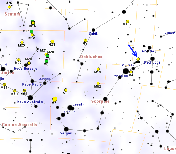 map of M80